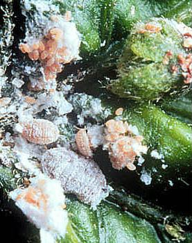 Hibiscus mealybug. Maconellicoccus hirsutus (Hemiptera: Pseudococcidae)